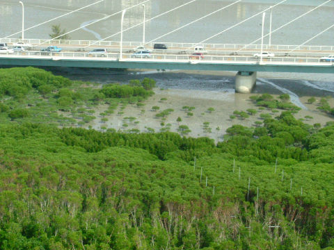 Manko between Naha City and Tomigusuku City in Okinawa, Japan.